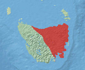 The Distribution of the Eastern Bettong